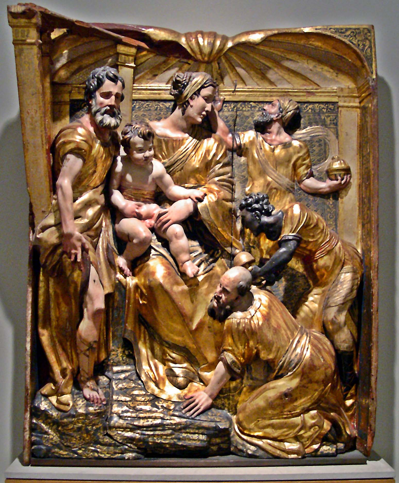 Worship of the Three Wise Men, sculpture in polychromed wood, part from the altarpiece of St. Benedict monastery, in Valladolid (Spain), actually exposed in the Museo Nacional de Escultura de Valladolid